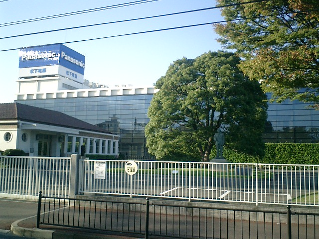 Panasonic corporate headquarters - Matsushita Electric Industrial Co.,Ltd. Nishi-Kadoma Office